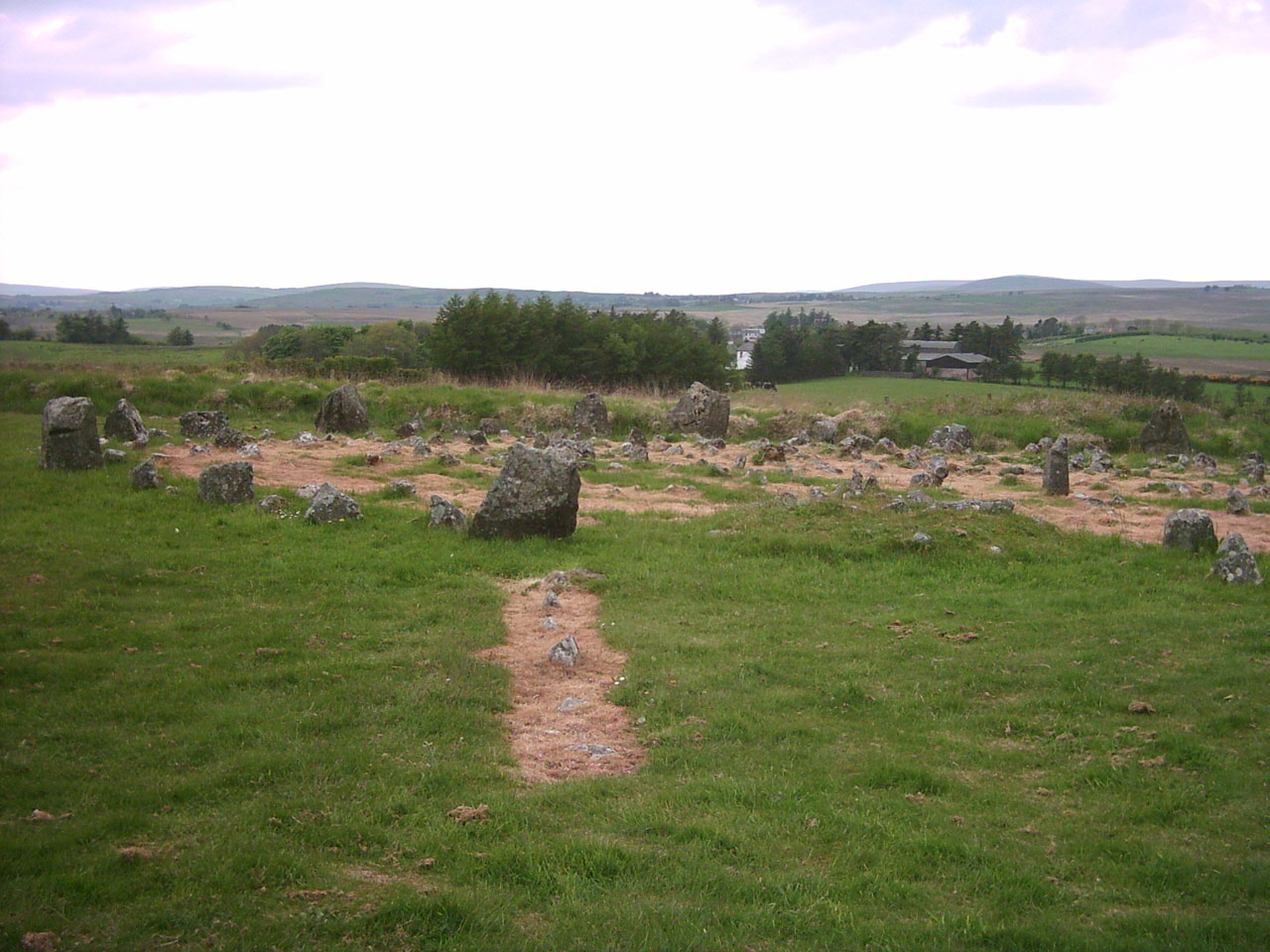 Beaghmore is littered with stone rows, stone circles and cairns. Often a stone row will come to an end, where a pair of stone circles sit. Fertility symbol is not a favoured explanation in the archaeological community.Co.Tyrone, Beaghmore